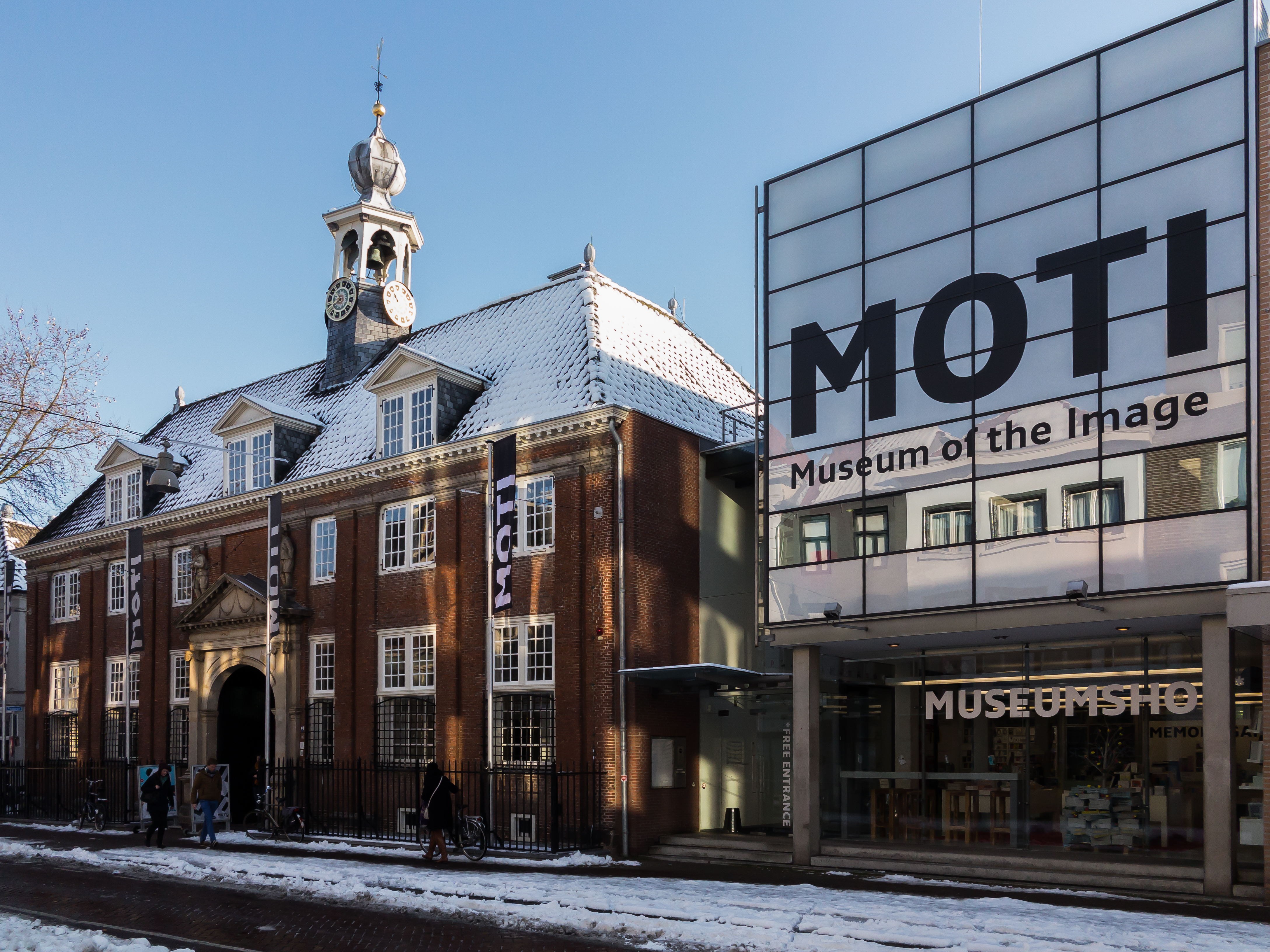 Breda, Museum of the Image